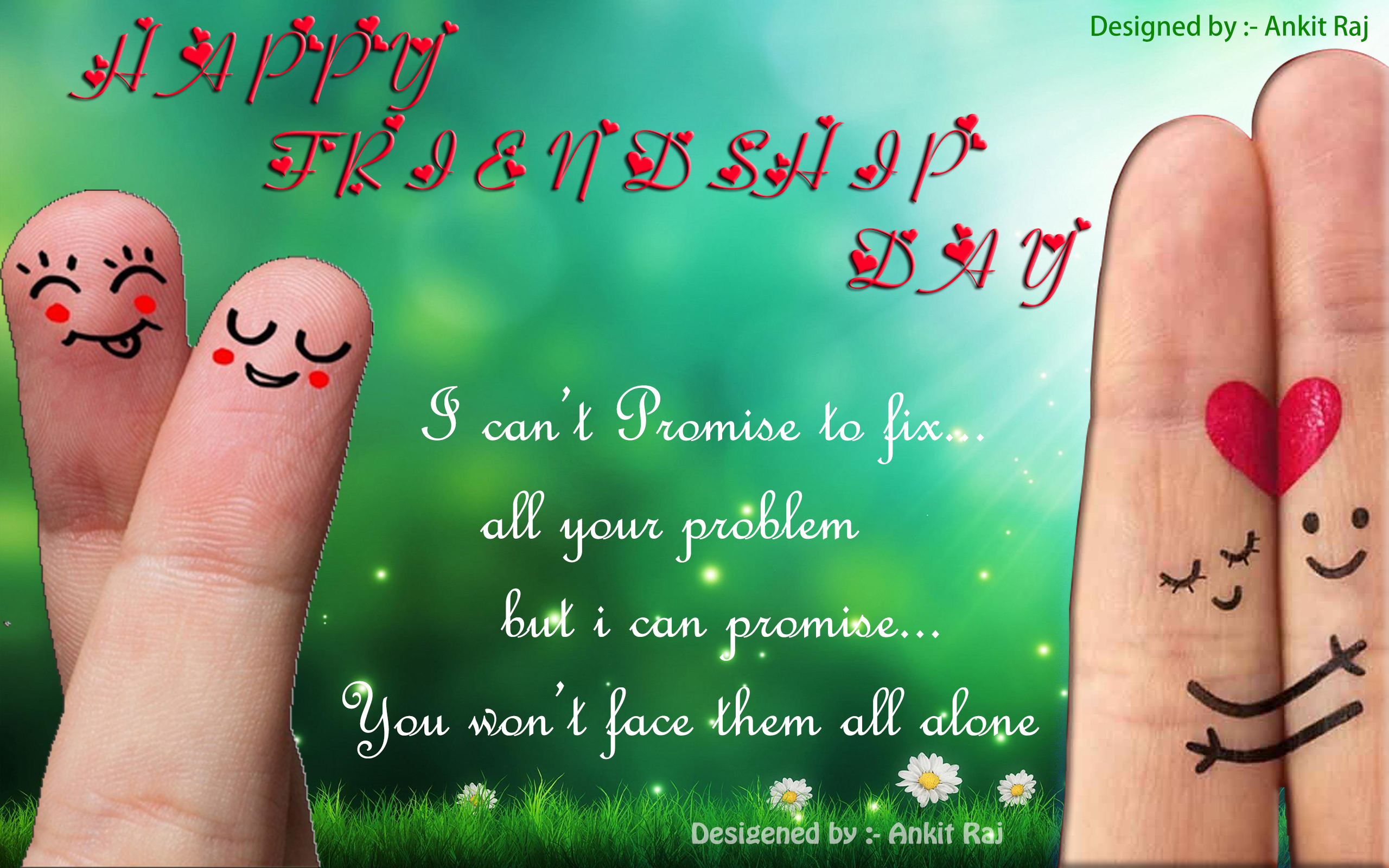 Happy Friendship Day. I have designed this for all my friends .